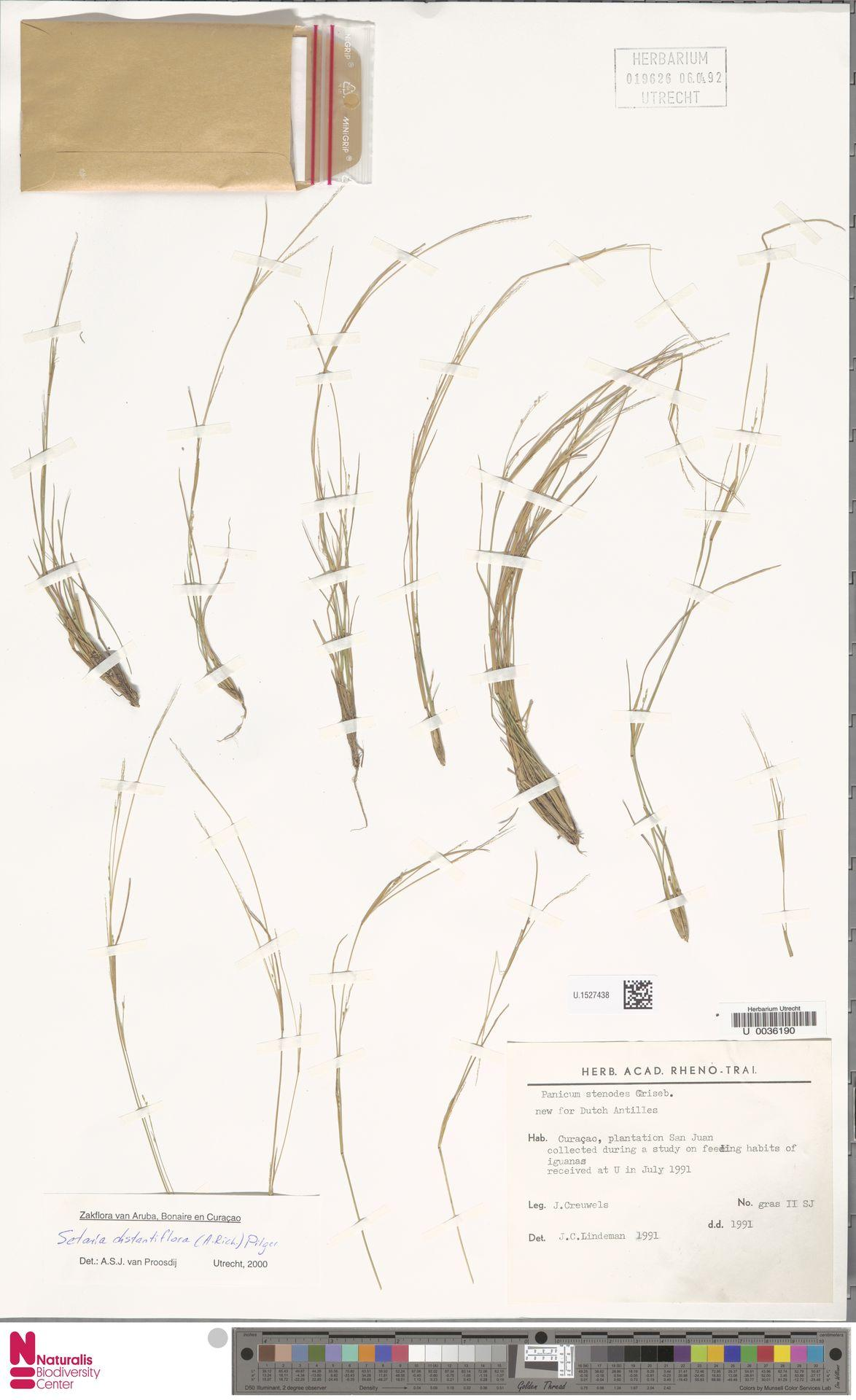 Herbarium sheet. Setaria distantiflora (A.Rich.) Pilg. Collector: Creuwels, J. Location: Southern America; Curaçao.